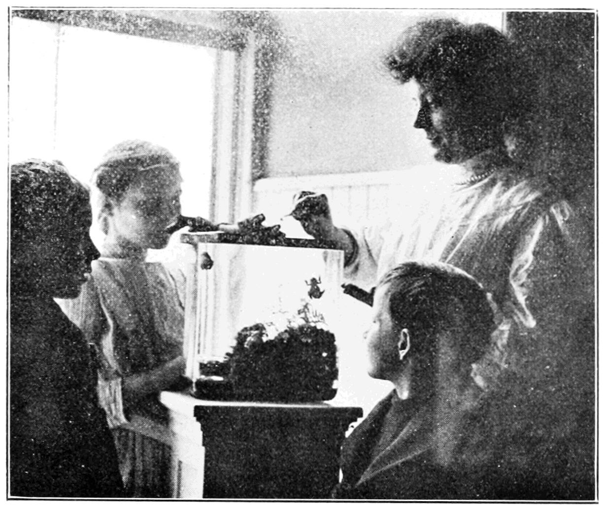 Feeding tree toads children activity in museum